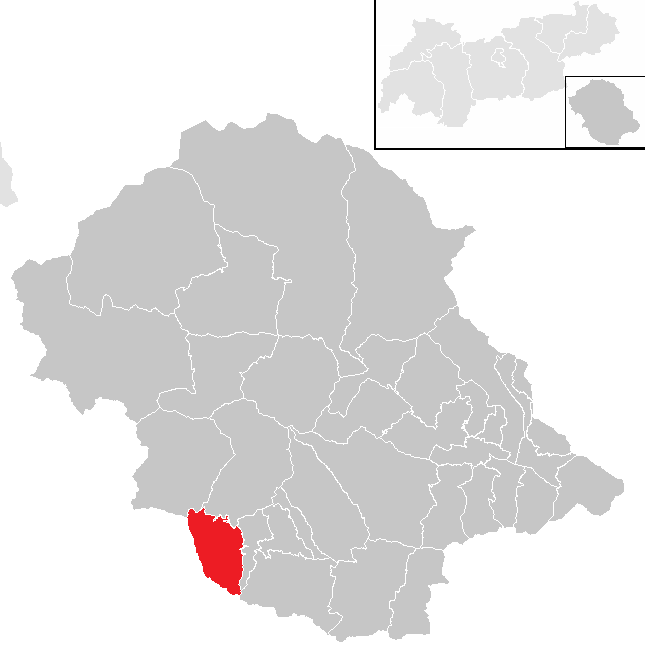 District Lienz